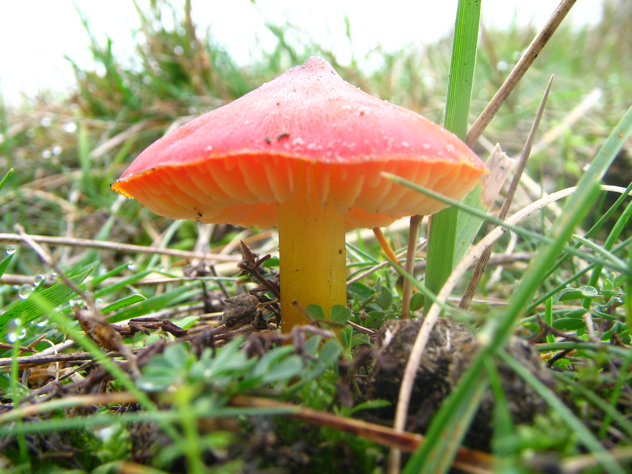 Hygrocybe conica Terschelling, Netherlands, November 2005